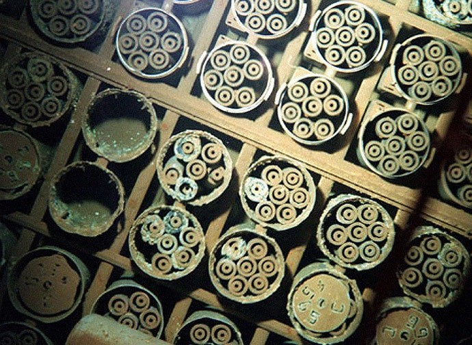 Original caption at source website: "Uncapped fuel stored underwater in K-East Basin". This is spent nuclear fuel at the Hanford site.